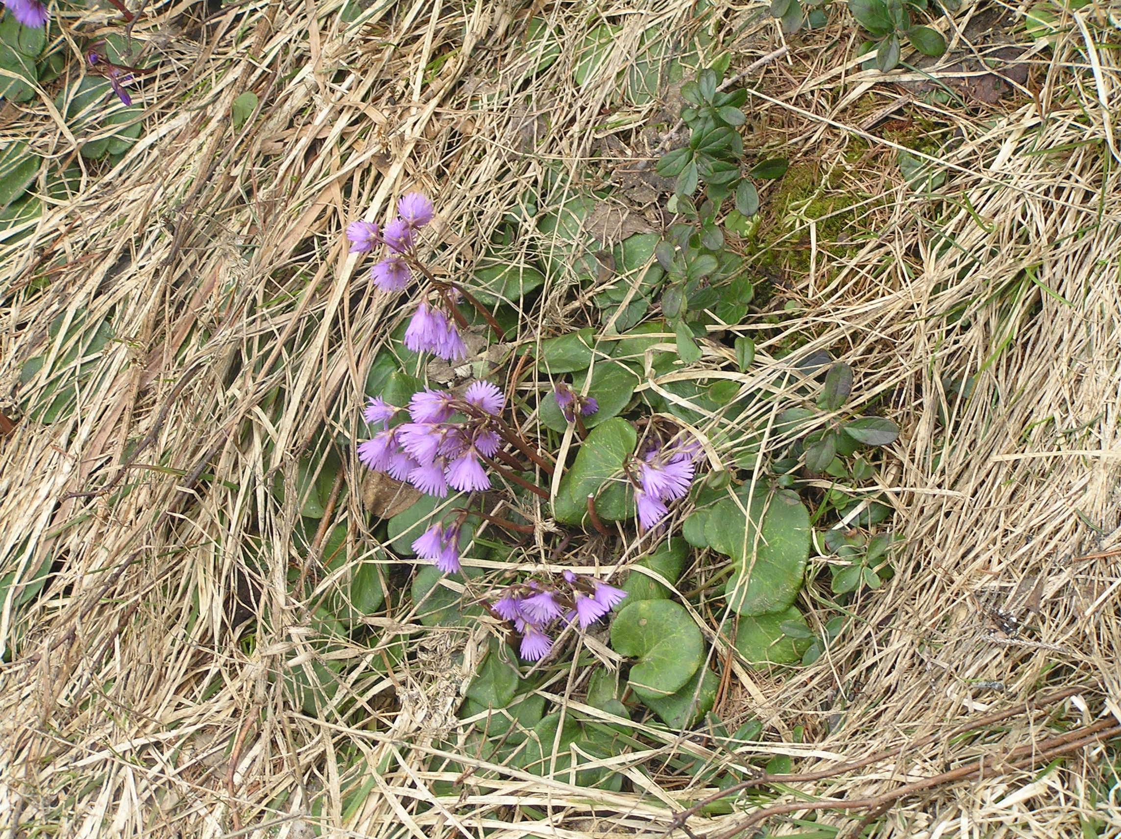 Soldanella montana, Austria, Alps, the mountin Schneeberg near Wiener Neustadt